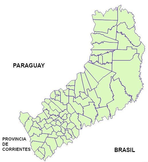 A map of municipios in Misiones province, Argentina.